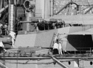 Photograph showing QF 4-inch Mk III gun mounted on roof of Q turret of HMS Inflexible.